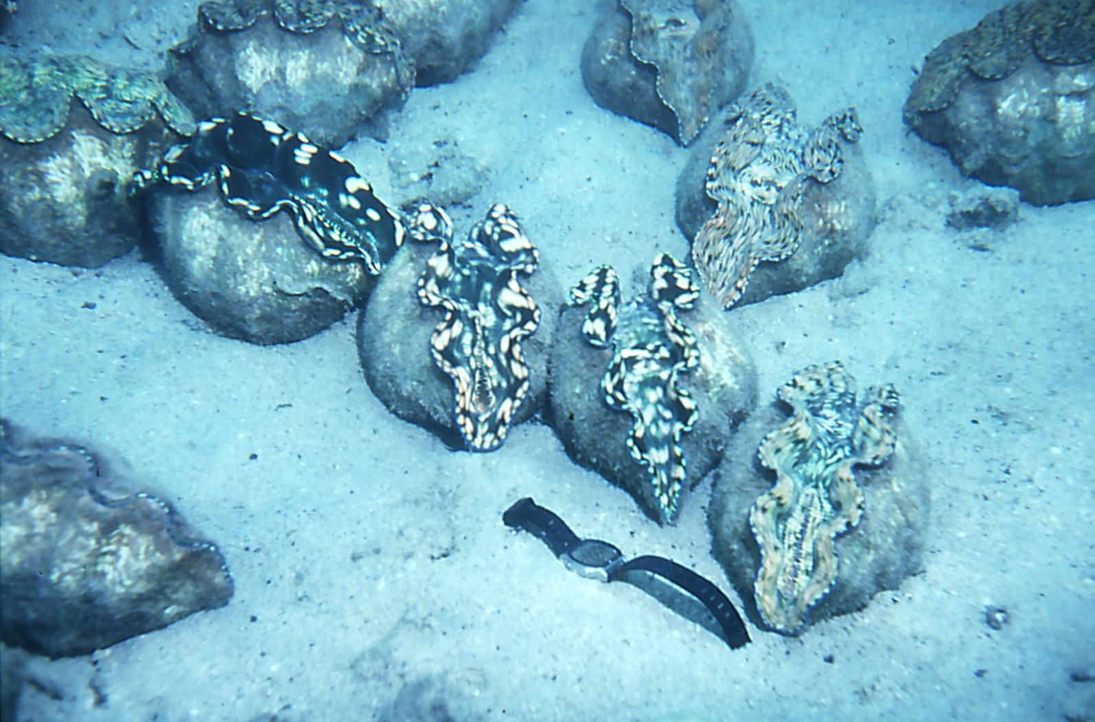 Culture of Triacna derasa at the Micronesian Mariculture Demonstration Center